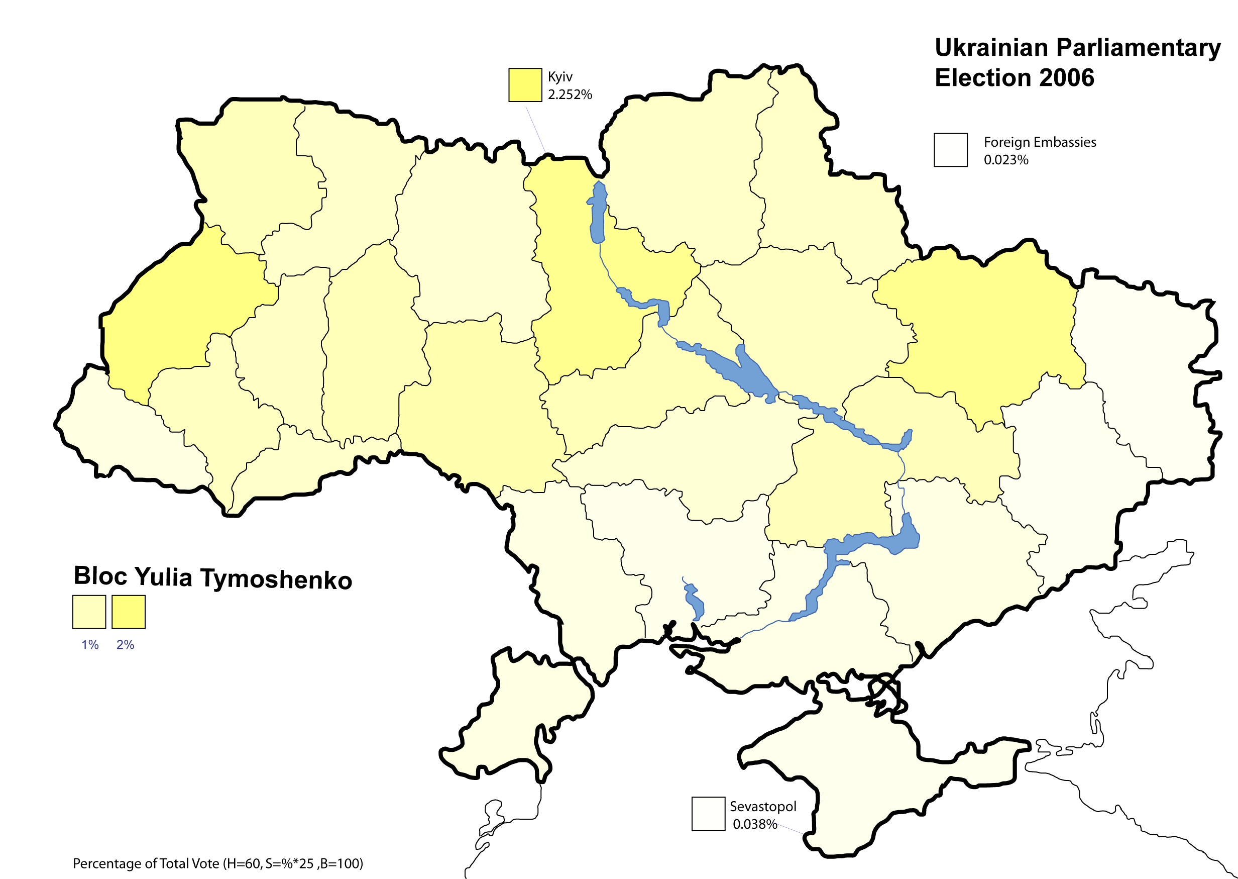 Ukrainian Parliamentary Election 2006 - Bloc Yulia Tymoshenko (non-verbose) percentage of total national vote (H=60, C=%*25, B=100)